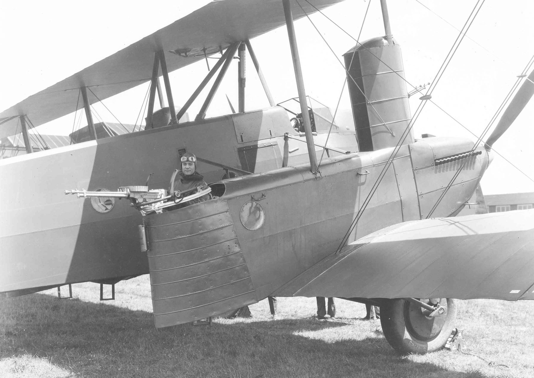 Curtiss XB-2 Condor bomber, closeup of right engine nacelle showing nacelle gunner's station with twin Lewis machine guns.